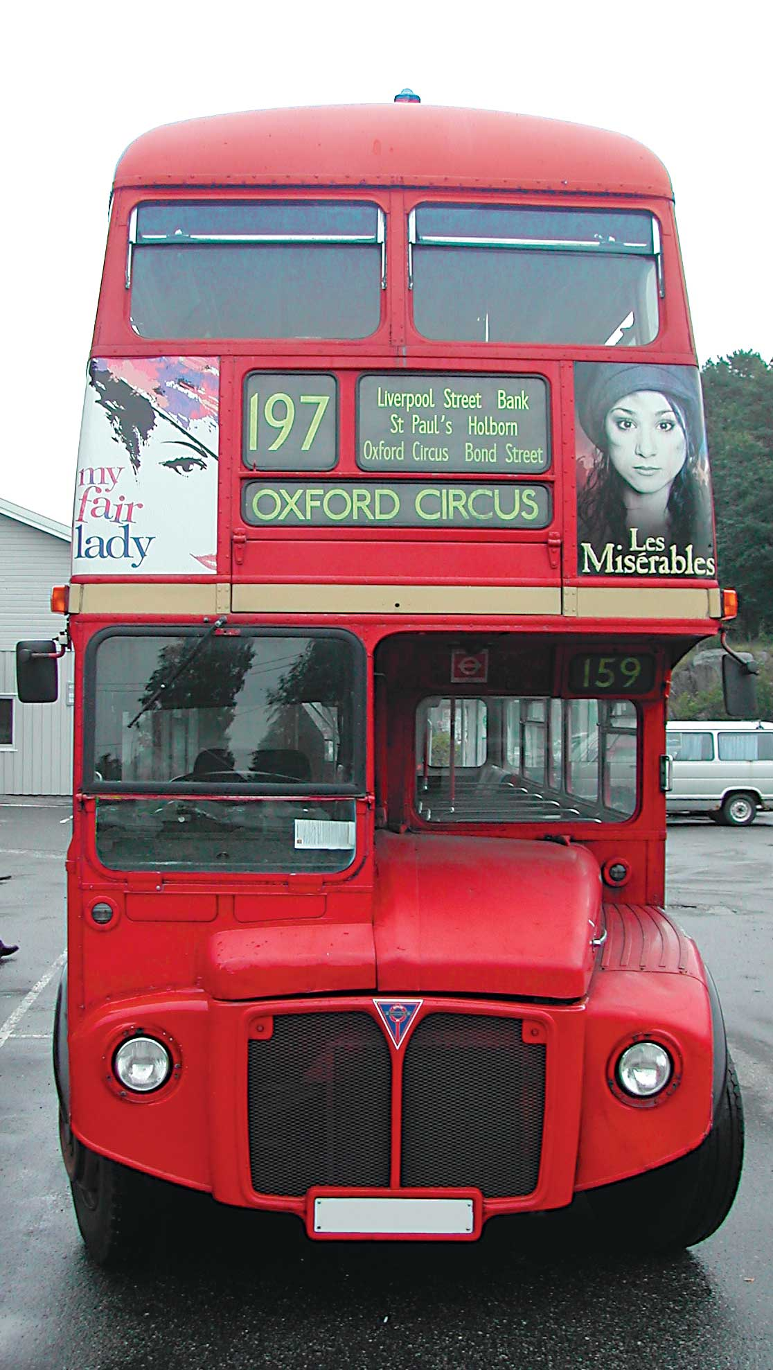 RML 2610 was imported to Norway in 2004 and is to be found in Hamar. Owner: Routemaster Hamar AS